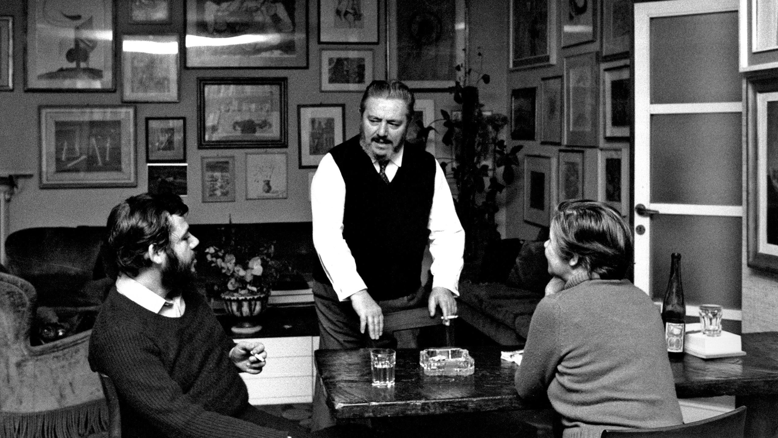 Italian sports journalists and novelists Gianni Mura (left) and Gianni Brera (centre) in Milan (Italy) in 1975.